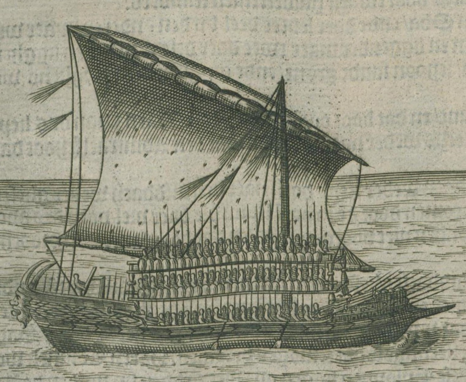 The ship is a warship from Madura, the island east of Java. The spears of the crew can be clearly identified. The ship has 3 breech-loading cannons (cetbang) at the bow, and 1 at the quarter.